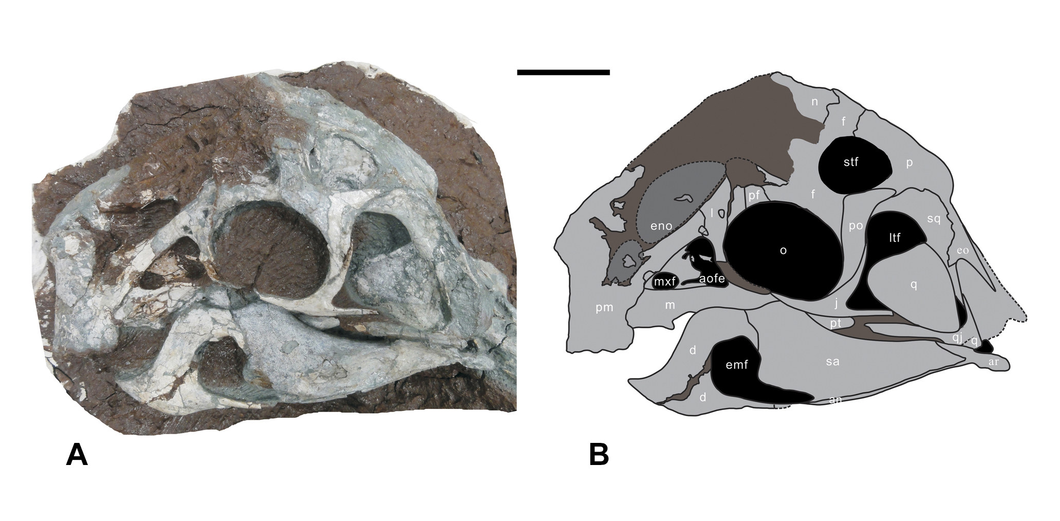 Outline (A) and photograph (B) of the skull of Huanansaurus ganzhouensis (HGM41HIII-0443) gen. et sp. nov. Abbreviations: an., angular; aofe., antorbital fenestra; ar., articular; d., dentary; emf., external mandibular fenestra; eno., external narial opening; eo., exoccipital; f., frontal; j., jugal; l., lacrimal; ltf., lower temporal fenestra; m., maxilla; mxf., maxillary fenestra; n., nasal; p., parietal; pf., prefrontal; pm., premaxilla, po., post orbital; pt., pterygoid; q., quadrate; qj., quadratojugal; sa., surangular; sq., squamosal; stf., supratemporal fenestra. Scale bar = 5 cm.